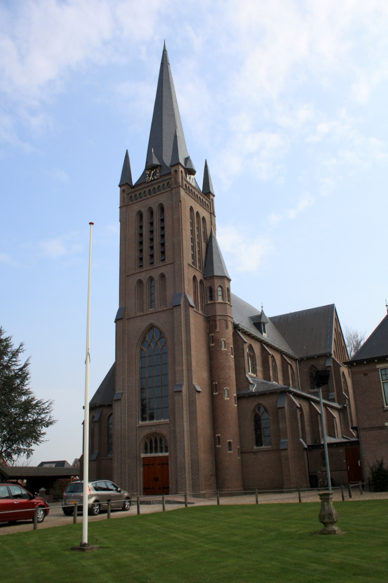 Church Boerhaar (Overijssel)